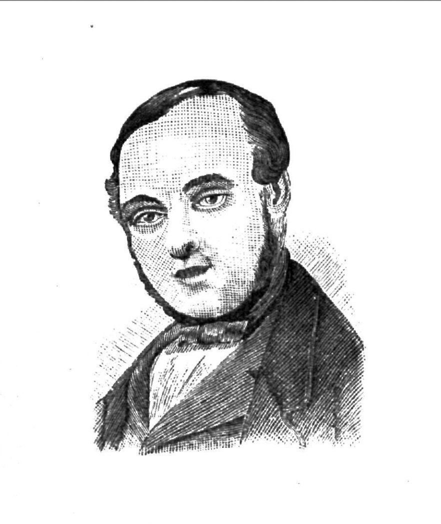 Fernando Calderón (1809-1845) poet, playwright, lawyer and mexican politician.